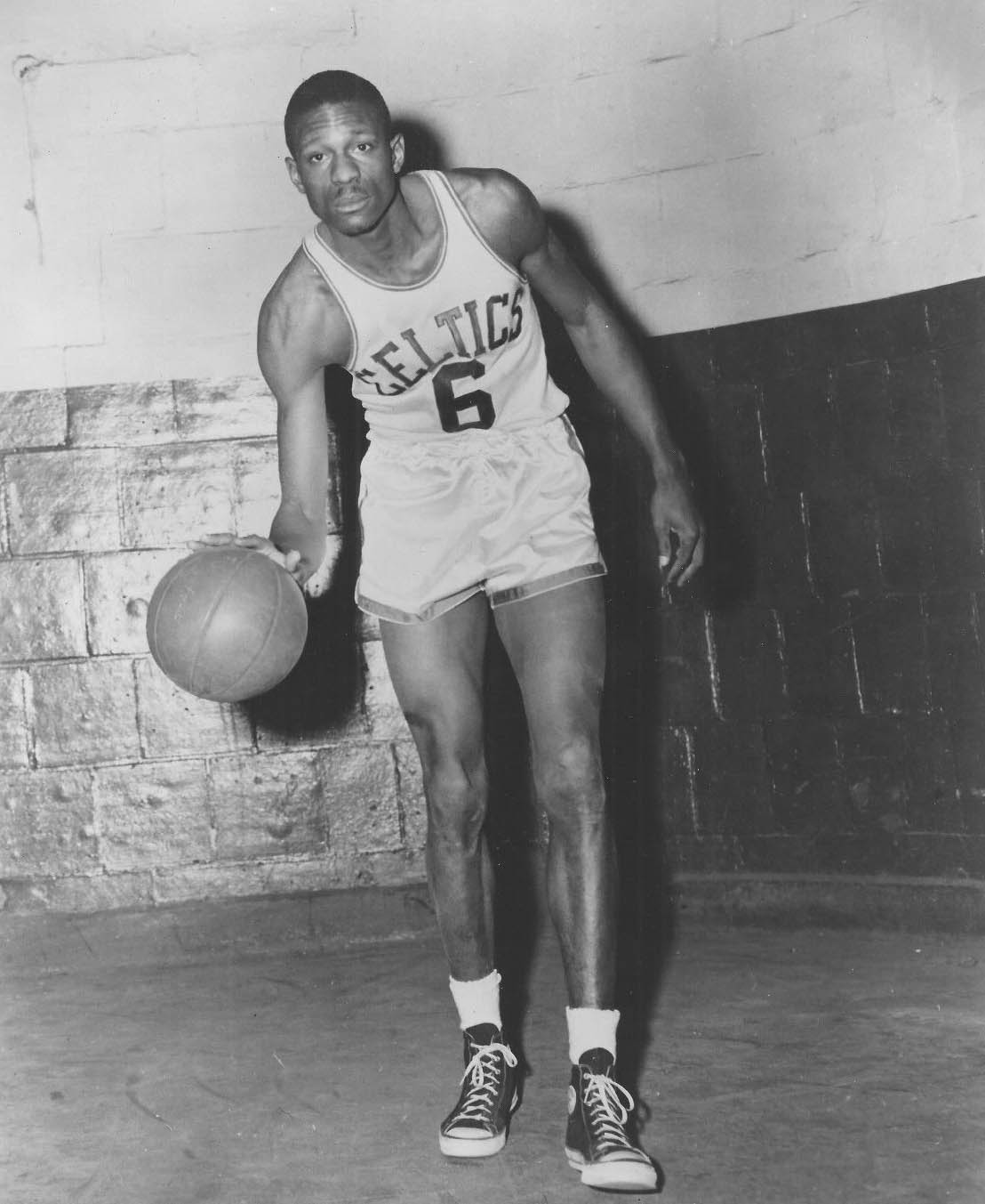 Former Boston Celtics player, Bill Russell, during his first years with the franchise.